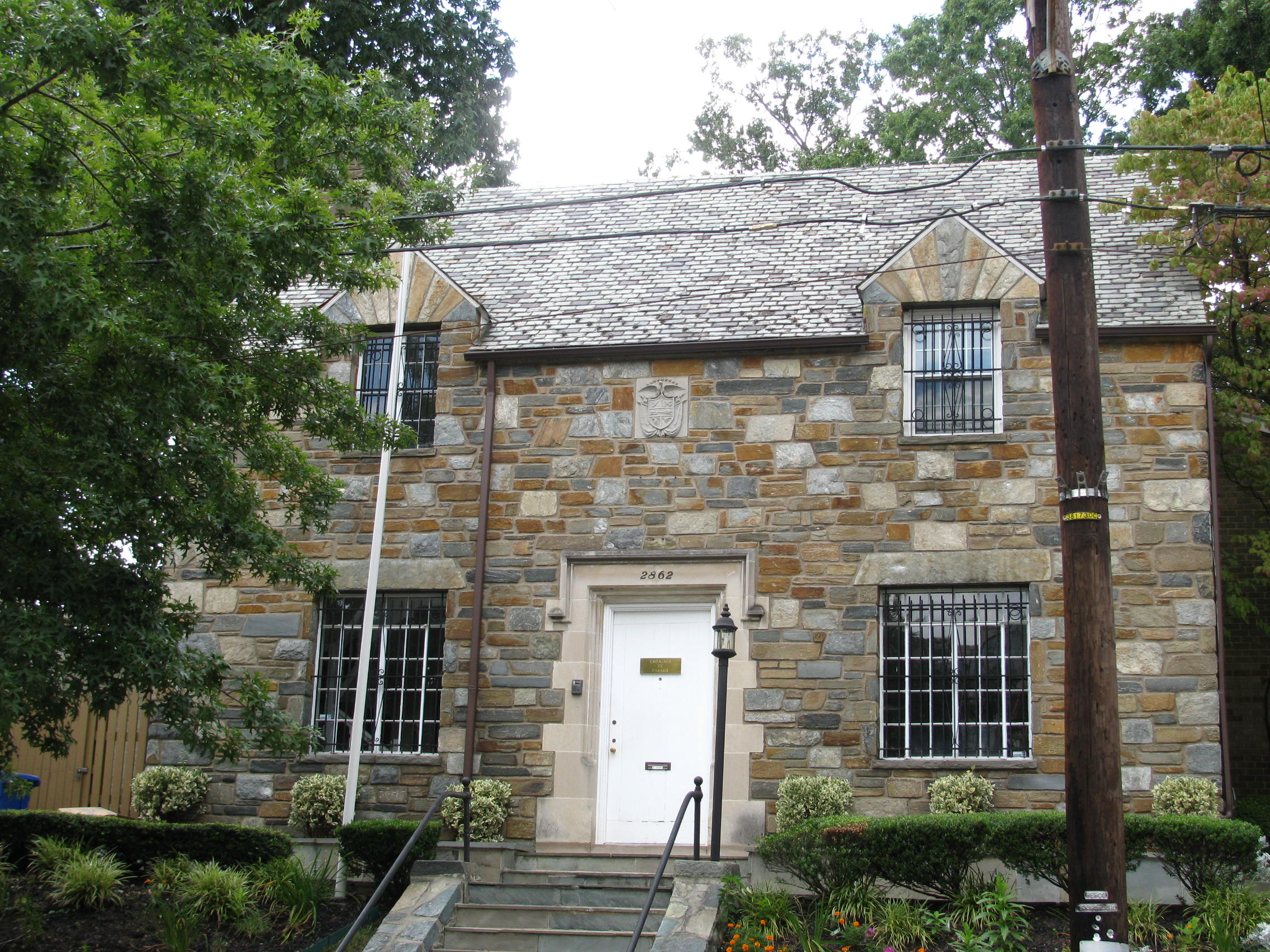 Embassy of Panama in Washington D.C.